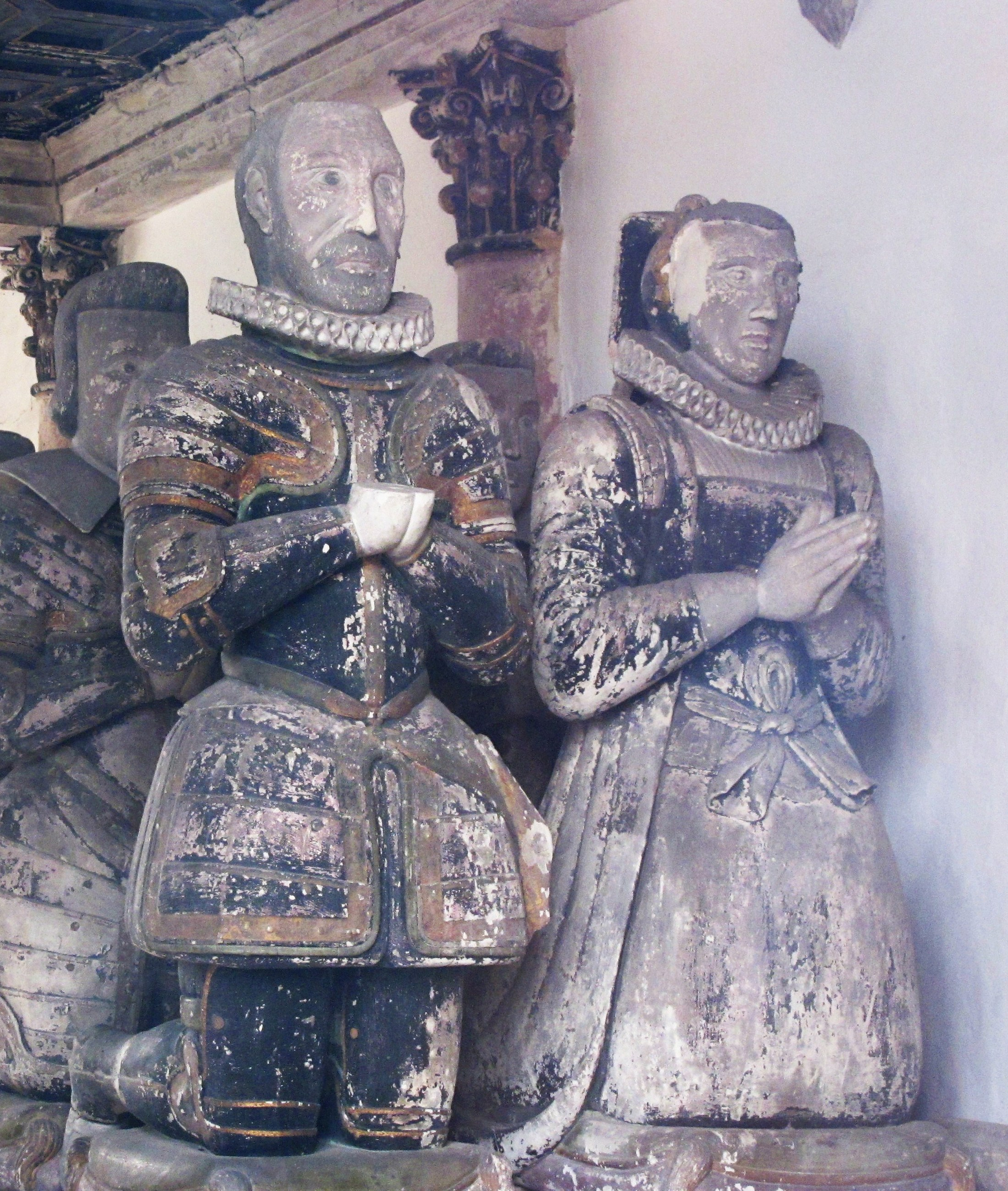 Detail of the monument to Sir Edward and Dame Susan Lewknor at Denham, West Suffolk, erected c. 1605.